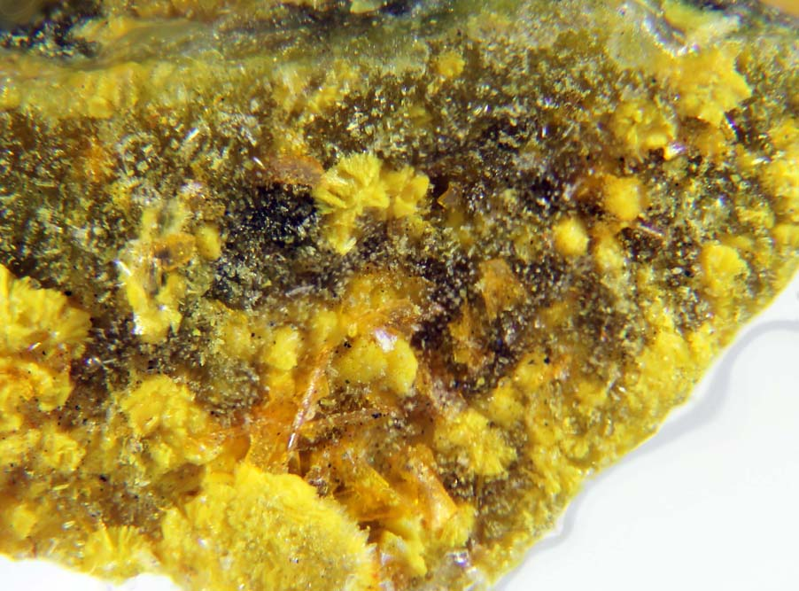 Outstanding yellow crystals of the extremely rare uranium mineral agrinierite from the type and only known locality worldwide: Margnac Mine, Compreignac, Haute-Vienne, Limousin, France.